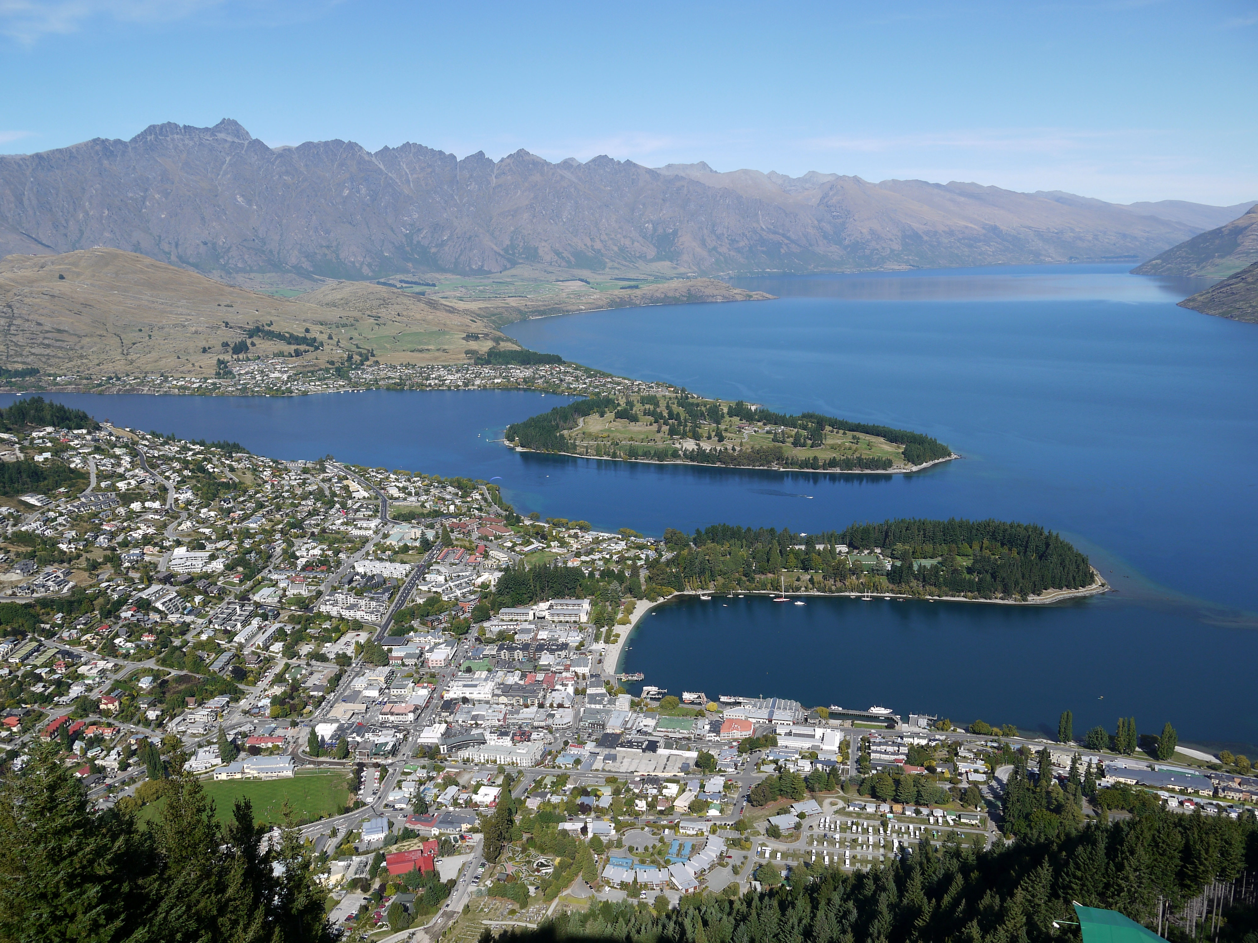 Queenstown and Lake Wakatipu, picture taken from the platform next to the Skyline Restaurant